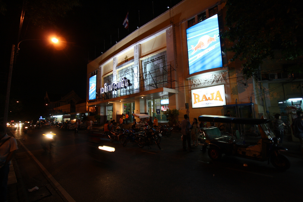 Rajadamnern Stadium, an indoor sports arena in Bangkok